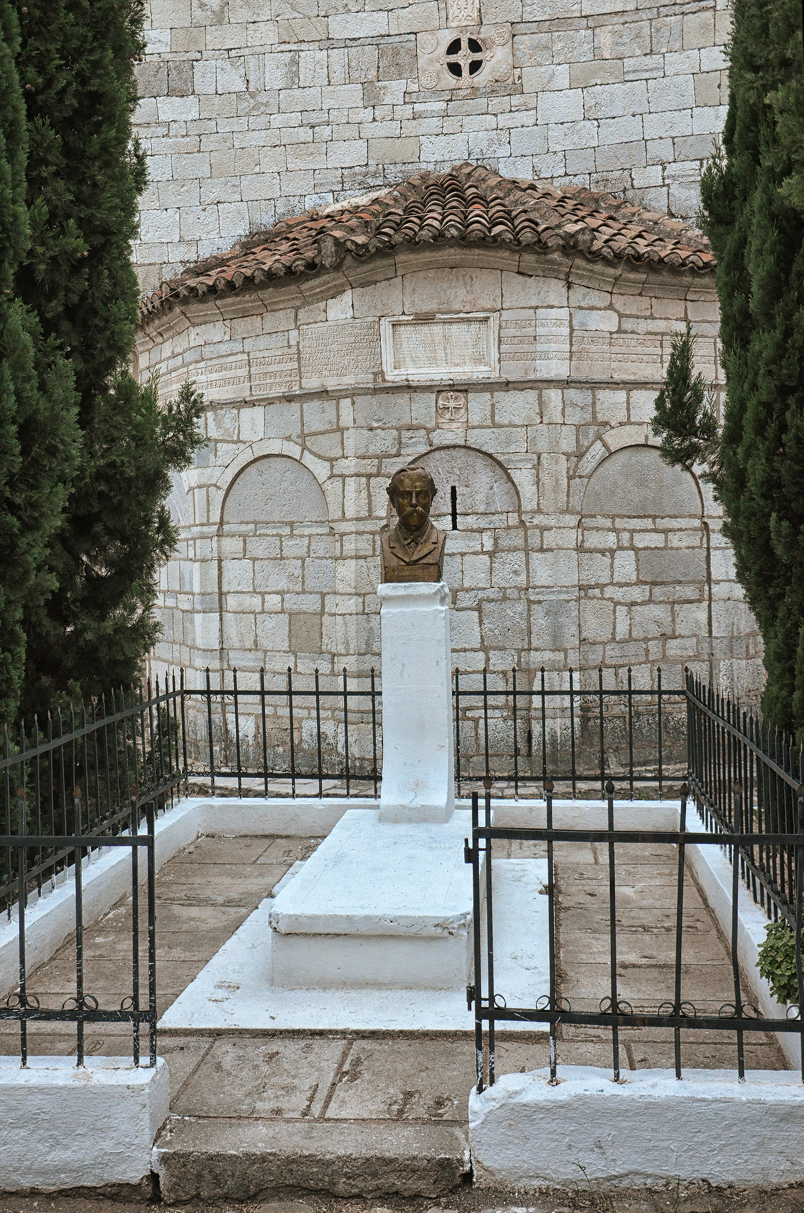 The grave of Kostandin Kristoforidhi in the courtyard of the St Mary's Church in Elbasan, Albania